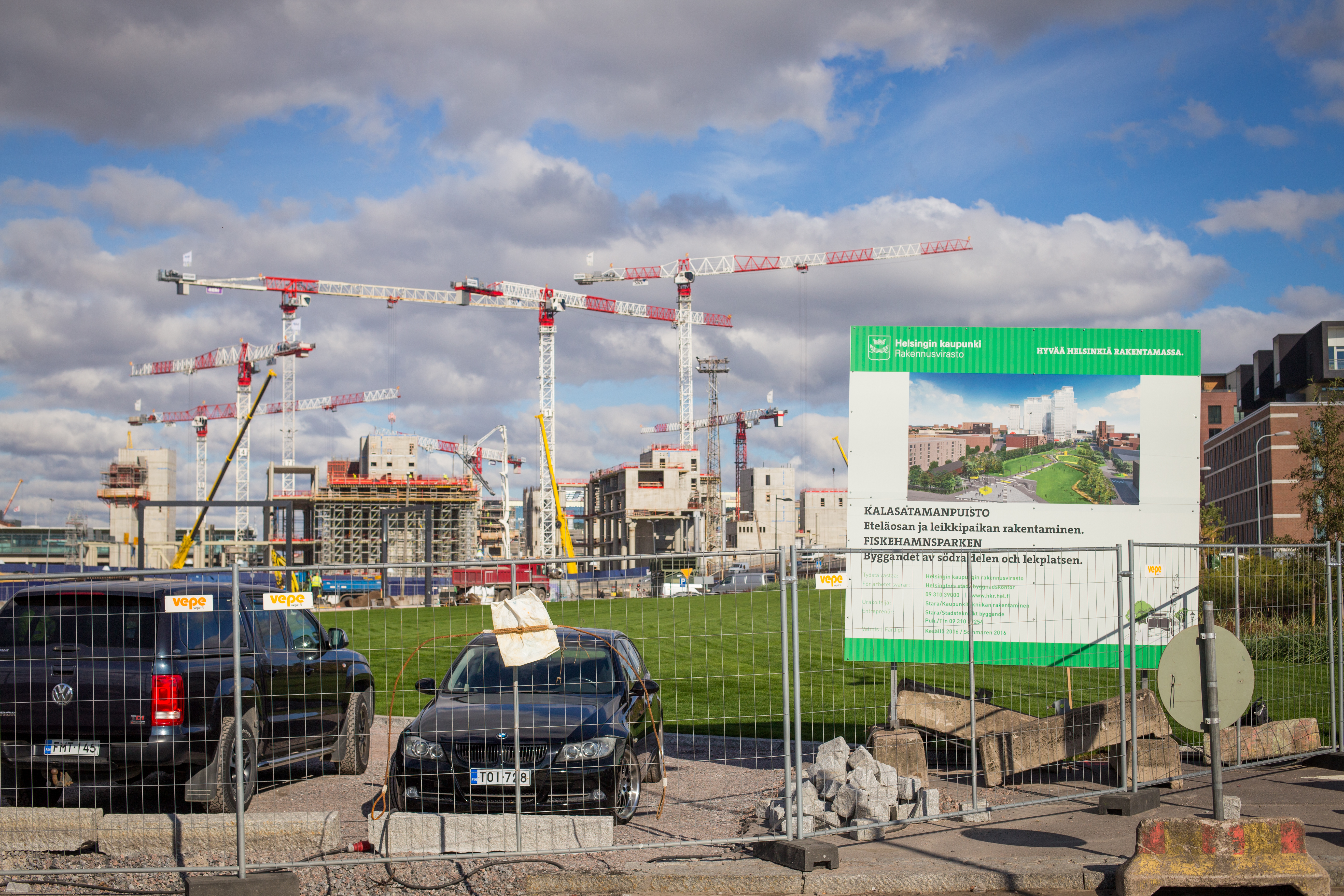 Kalasatama high rises and park being built